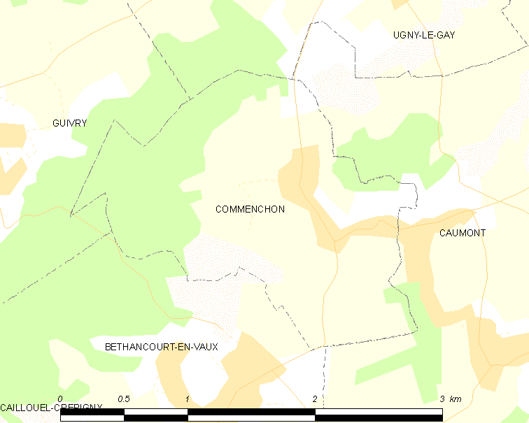 Map of French commune: Commenchon Map commune FR insee code 02207.png